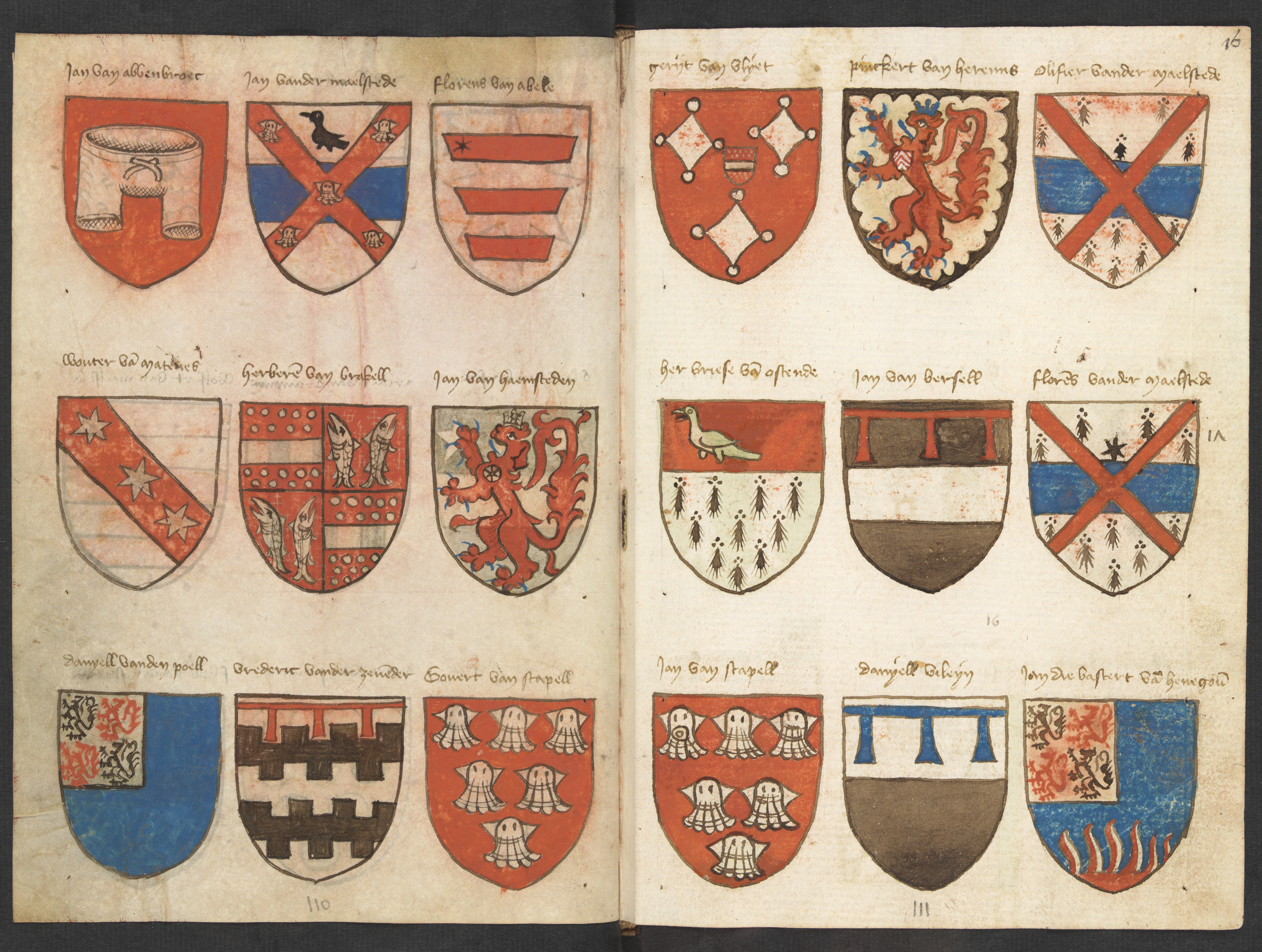 Lefthand side folio 015v; righthand side folio 016r from the Beyeren armorial / Wapenboek Beyeren